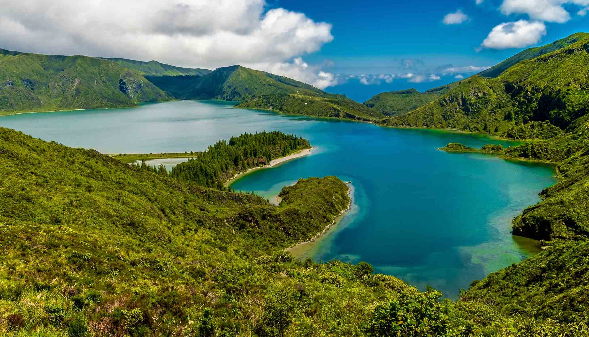 Fogo lake - S.Miguel island - Azores